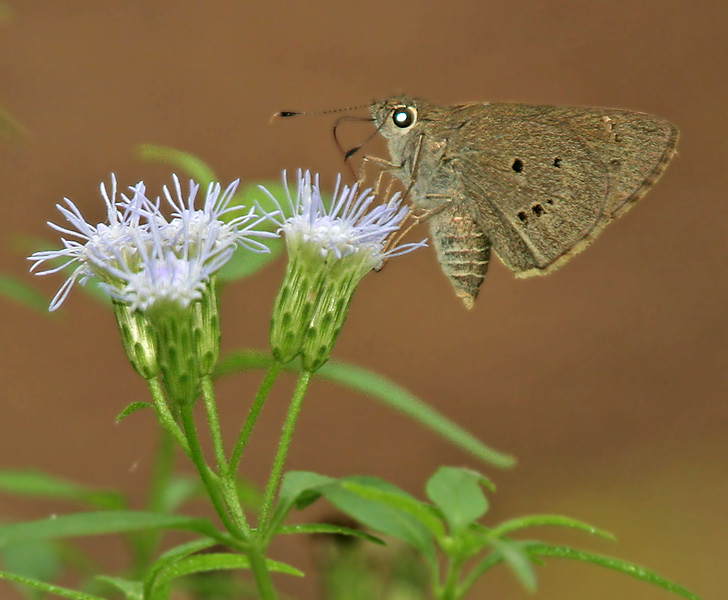 Indian Palm Bob Suastus gremius on Chromolaena odorata (Syn. Eupatorium odoratum) - Siam Weed, Bitter bush, Devilweed, Hagonoy, Jack in the bush, Triffid weed • Hindi: तीव्र गंधा Tivra gandha, Bagh dhoka • Malayalam: കമ്മ്യുണിസ്റ്റ് പച്ച Communist Pacha, Venapacha - in Hyderabad, India.